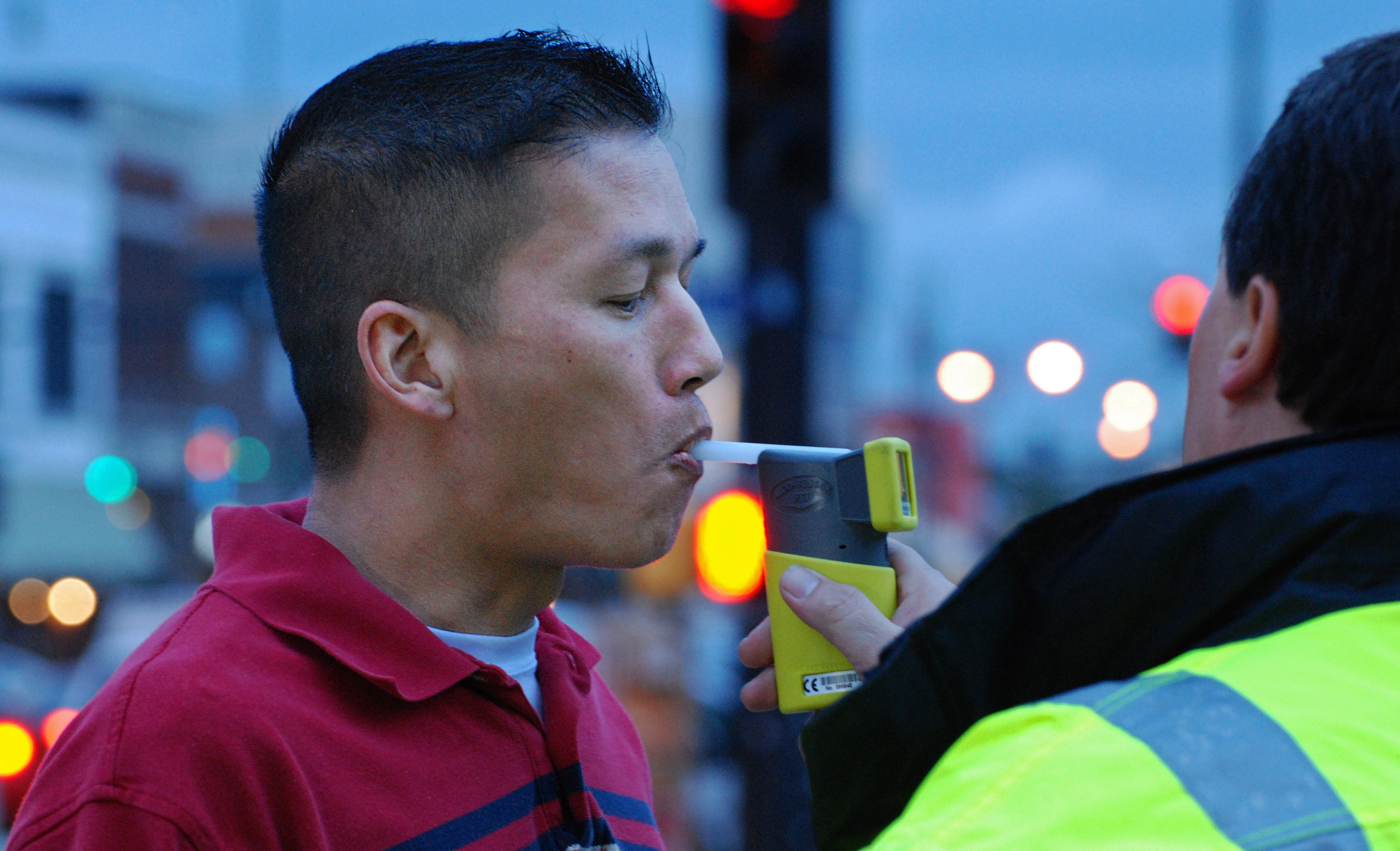 Tim Uong takes a Breathalyzer test at “Know Your Limit” in Columbia, Mo., on Friday, April 26, 2013. He says the event helped him learn how much one beer would affect his blood alcohol content level